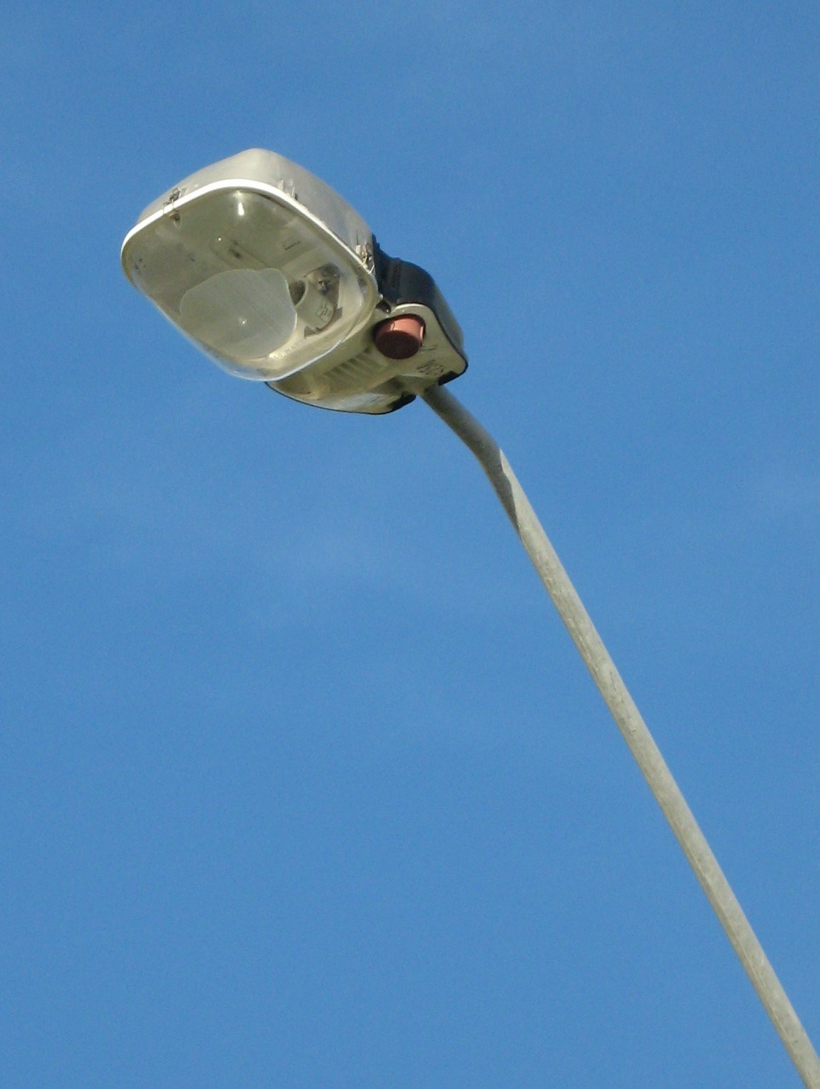 A 250 watt high pressure sodium vapour street lamp.